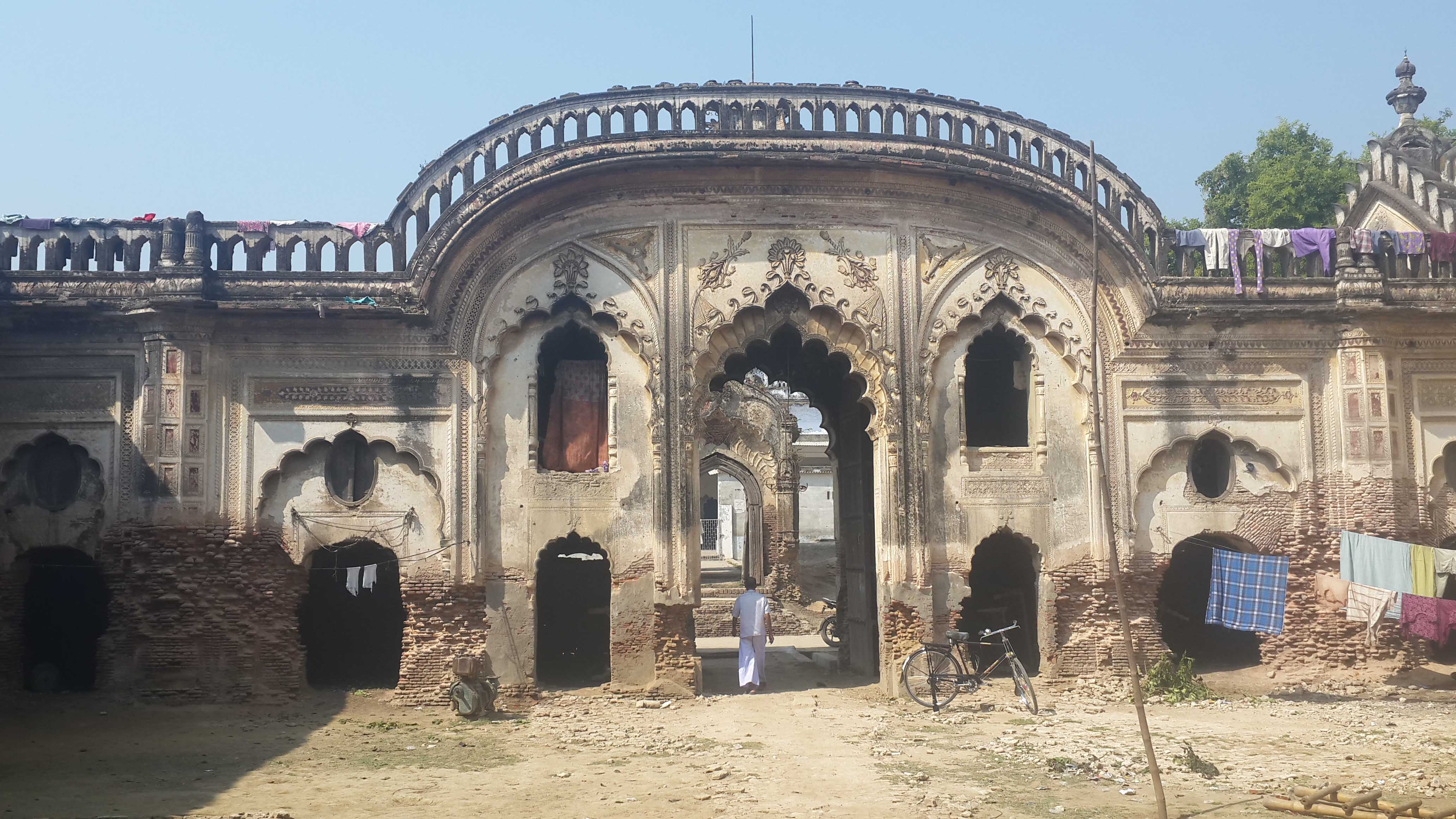 Imam Bada (Makka Jamidar)